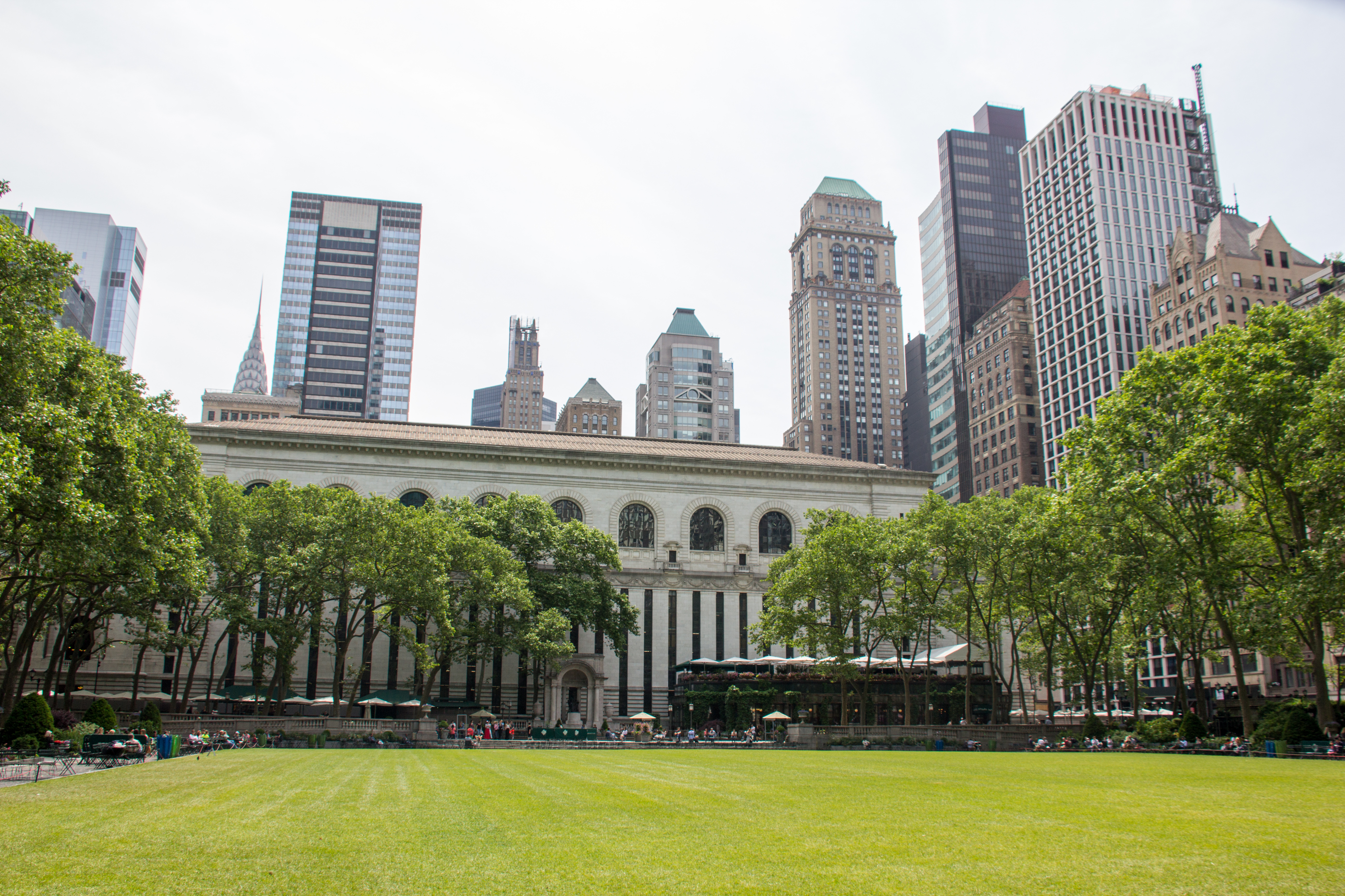 Manhatten, New York City Bryant Park